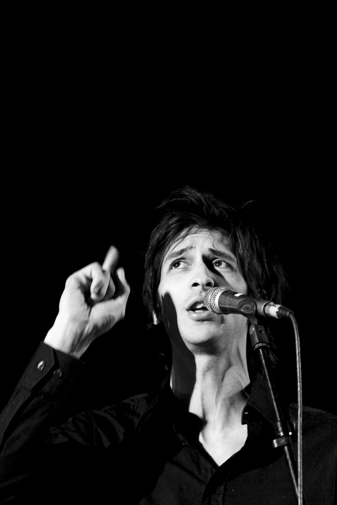 Lisboa, 26 de Março, na Aula Magna, antes do Concerto da Rita Redshoes e Shout Out Louds. Personality rights warning Although this work is freely licensed or in the public domain, the person(s) shown may have rights that legally restrict certain re-uses unless those depicted consent to such uses. In these cases, a model release or other evidence of consent could protect you from infringement claims.